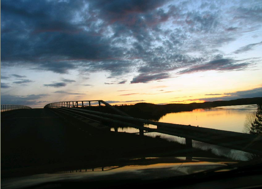 Mönni bridge in Kontiolahti, over river Pielisjoki